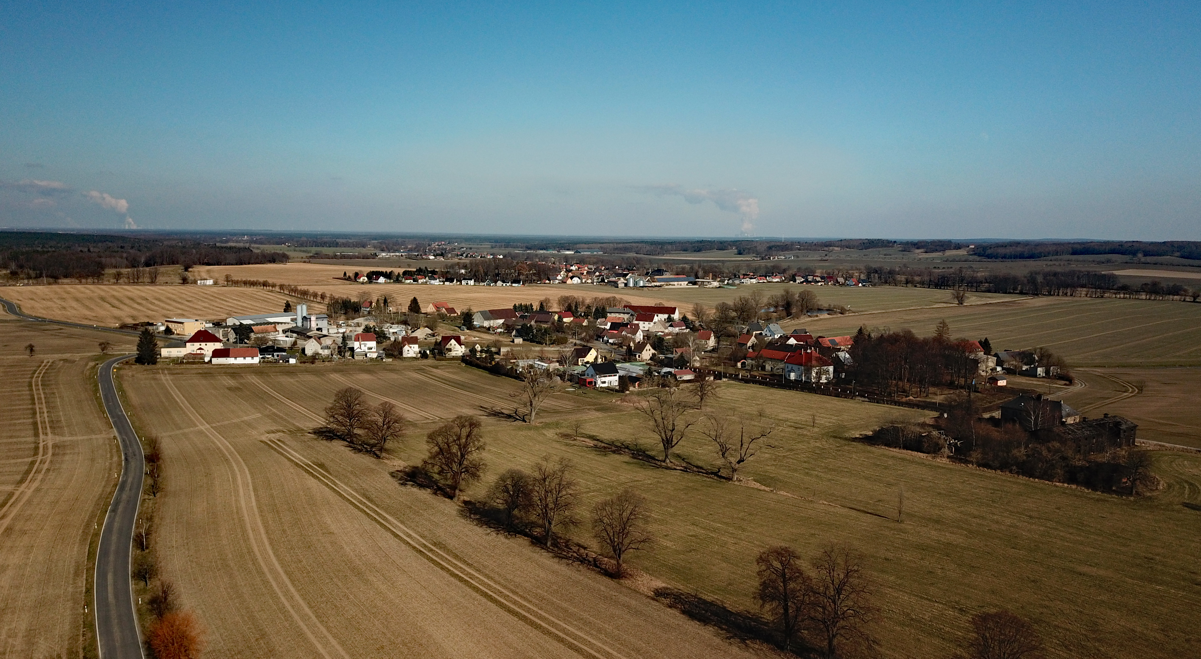 Höflein (Räckelwitz, Saxony, Germany) Hornjoserbsce: Powětrowy wobraz Wudworja.